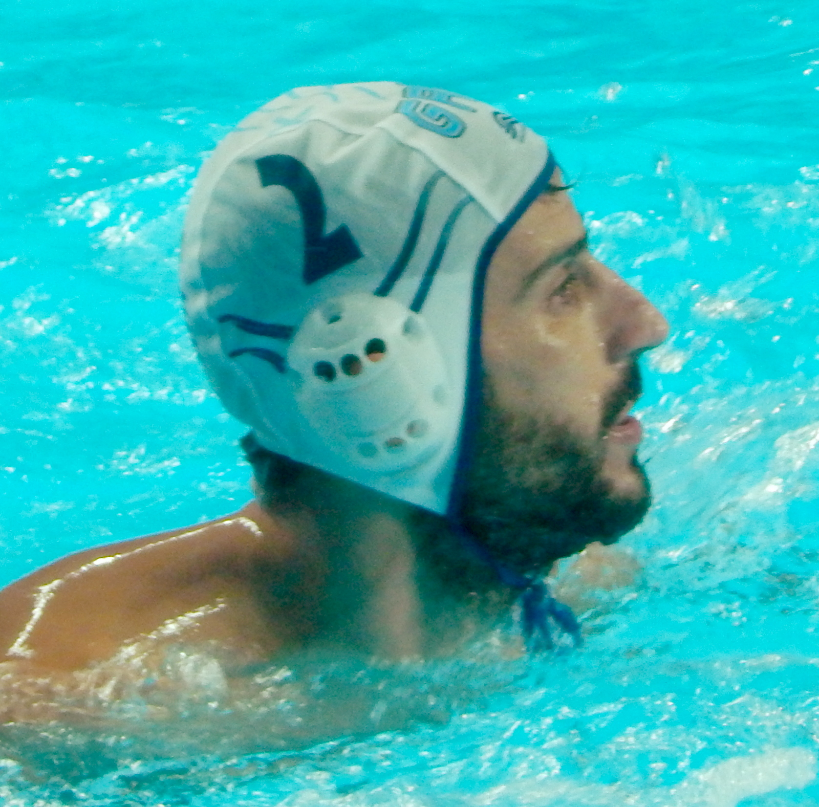 Manolis Mylonakis in the bronze medal match between Team Greece and Team Italy in the 2015 World Championship in Kazan.